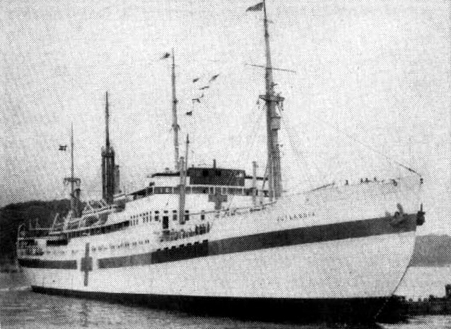 The Danish hospital ship Jutlandia in Korea. Denmark emphasized the civilian status of the ship and the Danish Red Cross was manning, organizing and running the hospital. Jutlandia arrived at Pusan, Korea, on 10 March 1951.